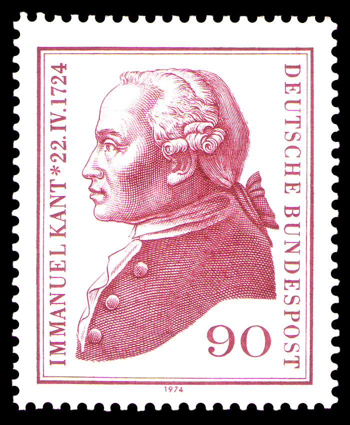 stamp for 250 years of birth of Immanuel Kant (1724-1804)(Philosoph) Ausgabepreis: 90 Pfennig First Day of Issue / Erstausgabetag: 17. April 1974 Michel-Katalog-Nr: 806